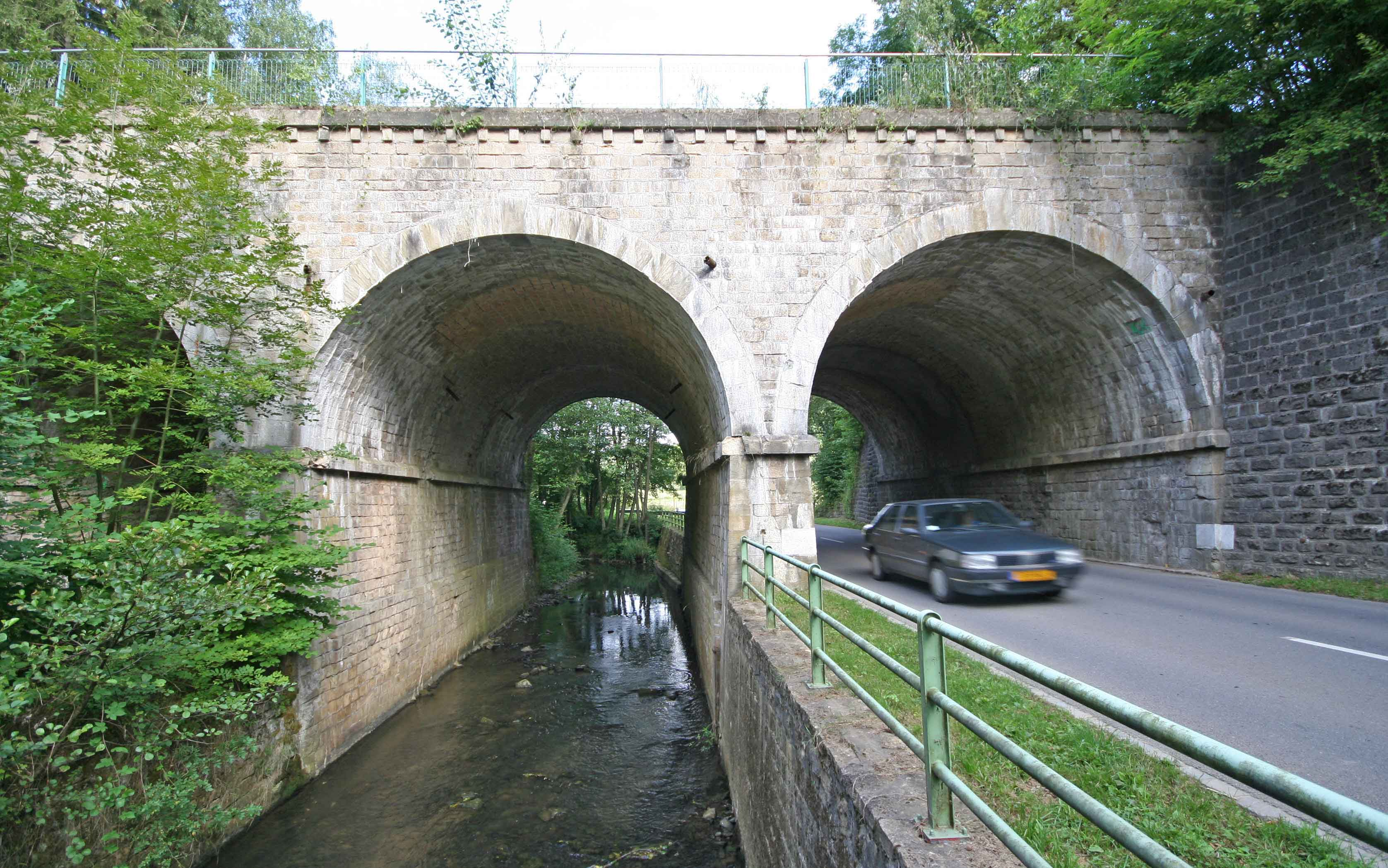 Eisch river at the triple bridge in Eischen, Luxembourg